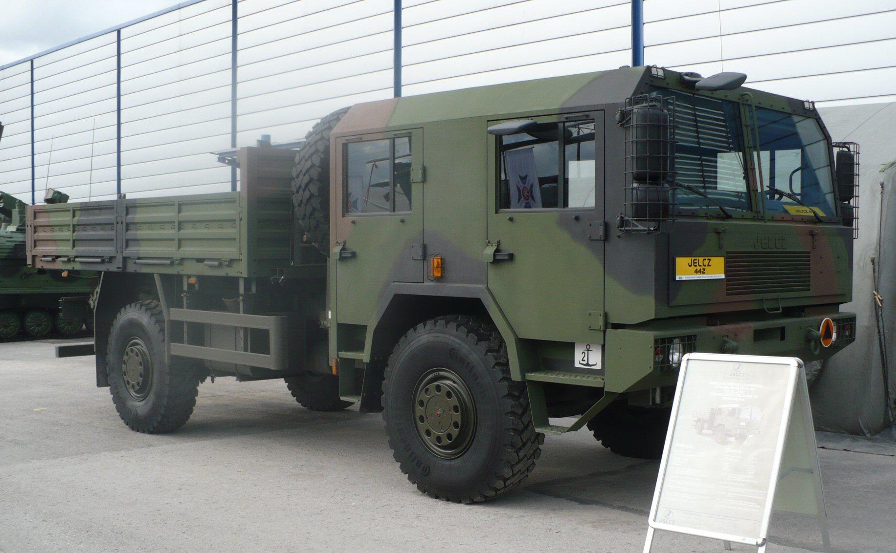 Polish Jelcz S442D.28 Bartek 4x4 truck.